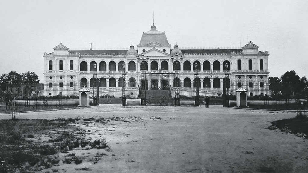 Palais du Gouverneur, Saigon